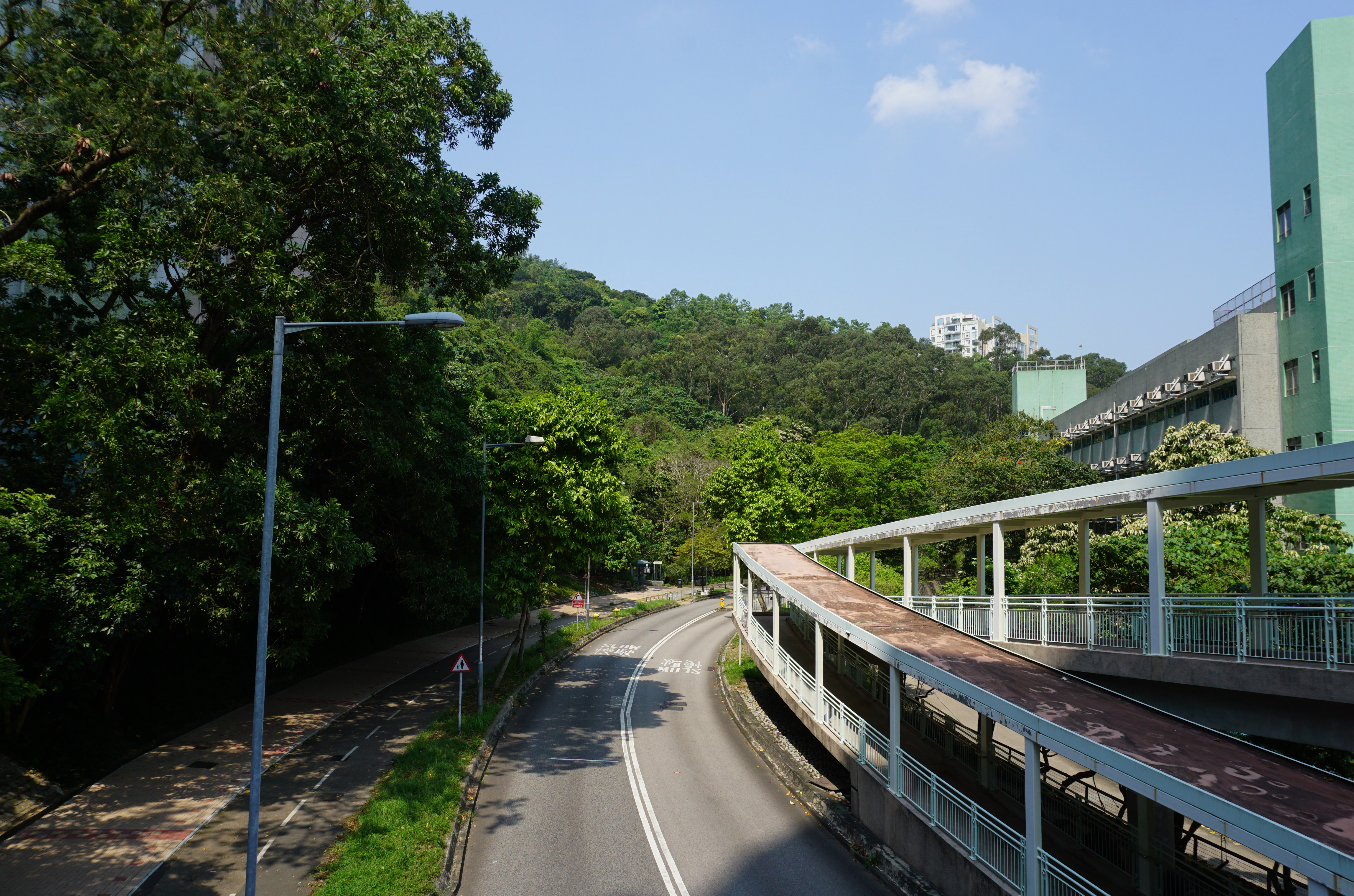 Mei Tin Road in Tai Wai, Hong Kong.